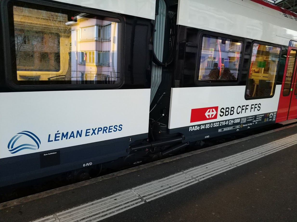 A Stadler FLIRT car (RABe 522) with Leman Express logo, at Lausanne Gare afte running RER Vaud ligne S5.